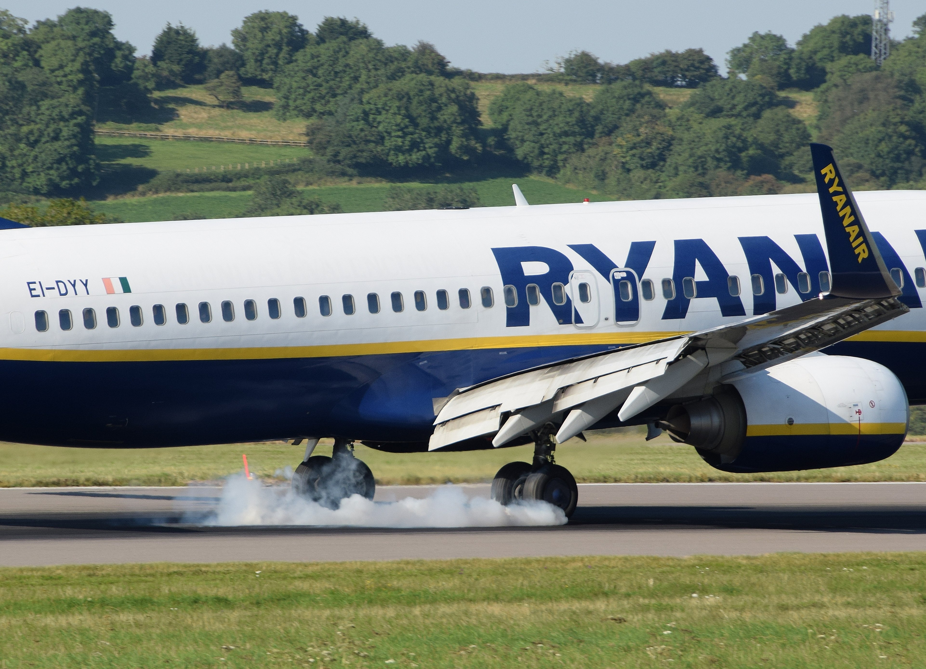 Boeing 737-800 (EI-DYY) of Ryanair makes a smoky landing at Bristol Airport, England.